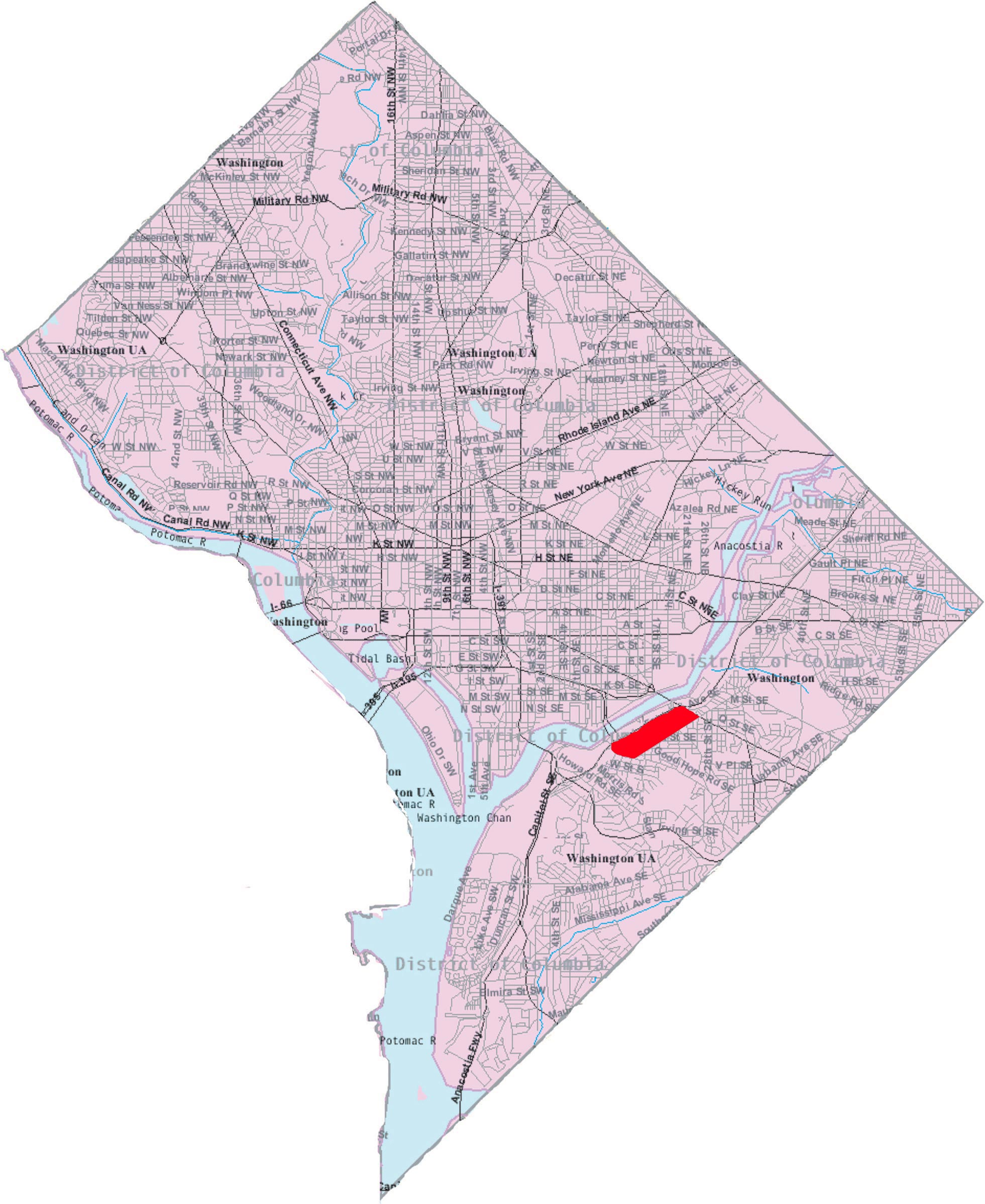 This image is a modified version of a self-generated reference map from the U.S. Census Bureau's American Factfinder at by Wikipedia user Msclguru.